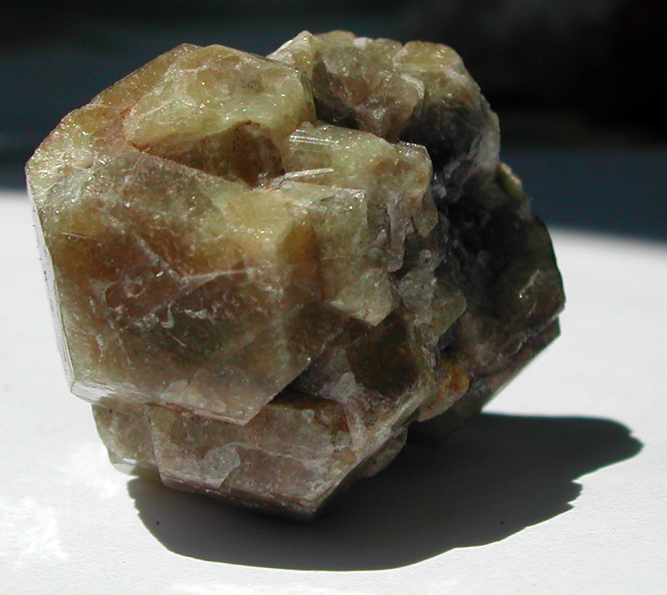 Grossular garnet from Jaco Lake, Mexico